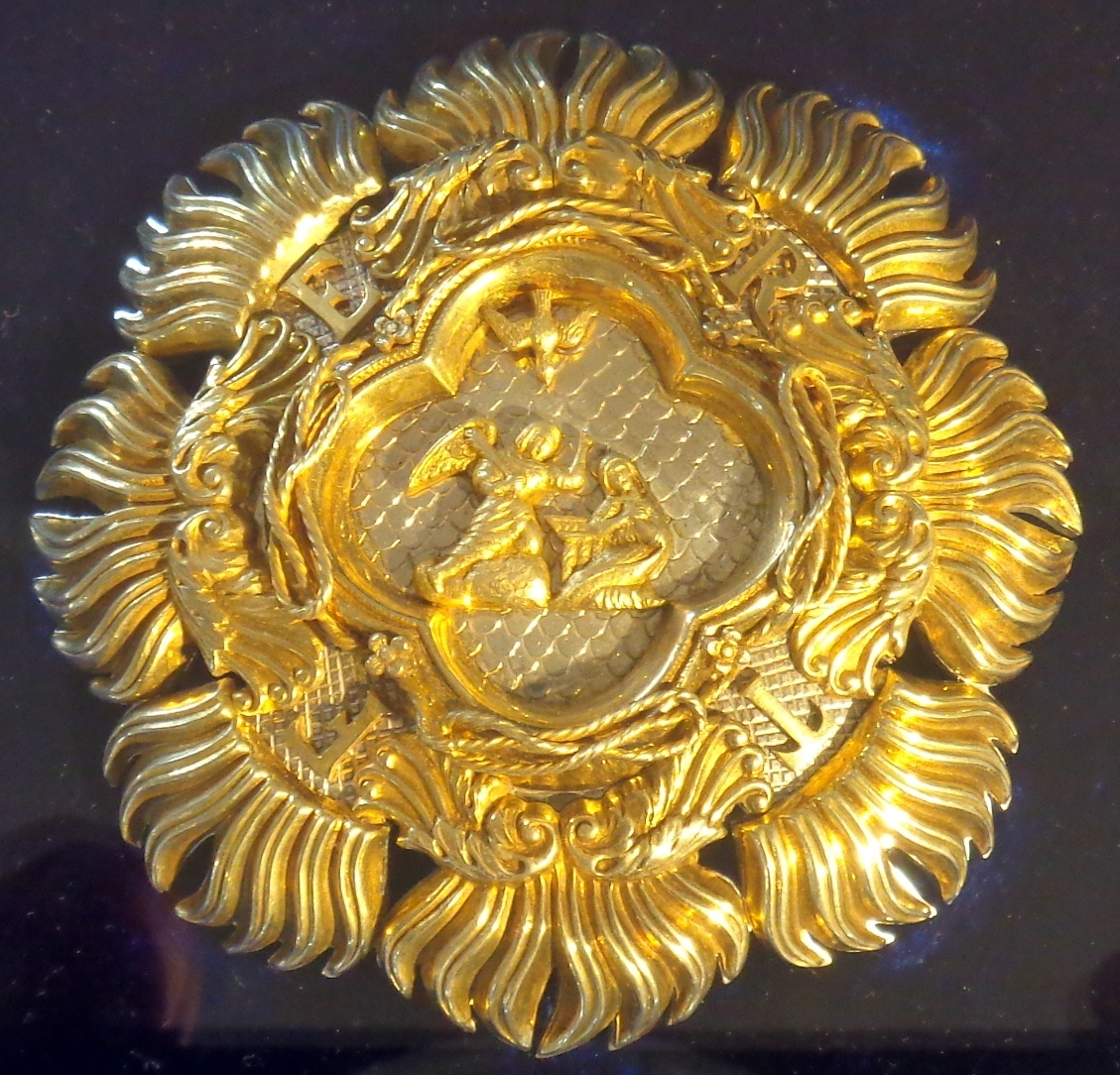 Order of the Most Holy Annunciation, star, 1920-1940. Kingdom of Italy. The exhibition of the Tallinn Museum of Orders of Knighthood, Estonia.